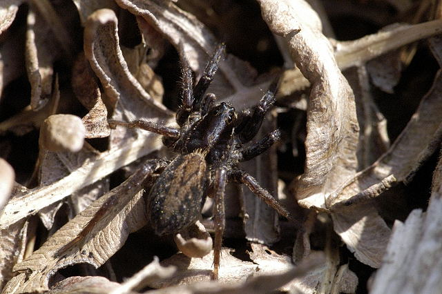 female Alopecosa pulverulenta from Commanster, Belgian High Ardennes .